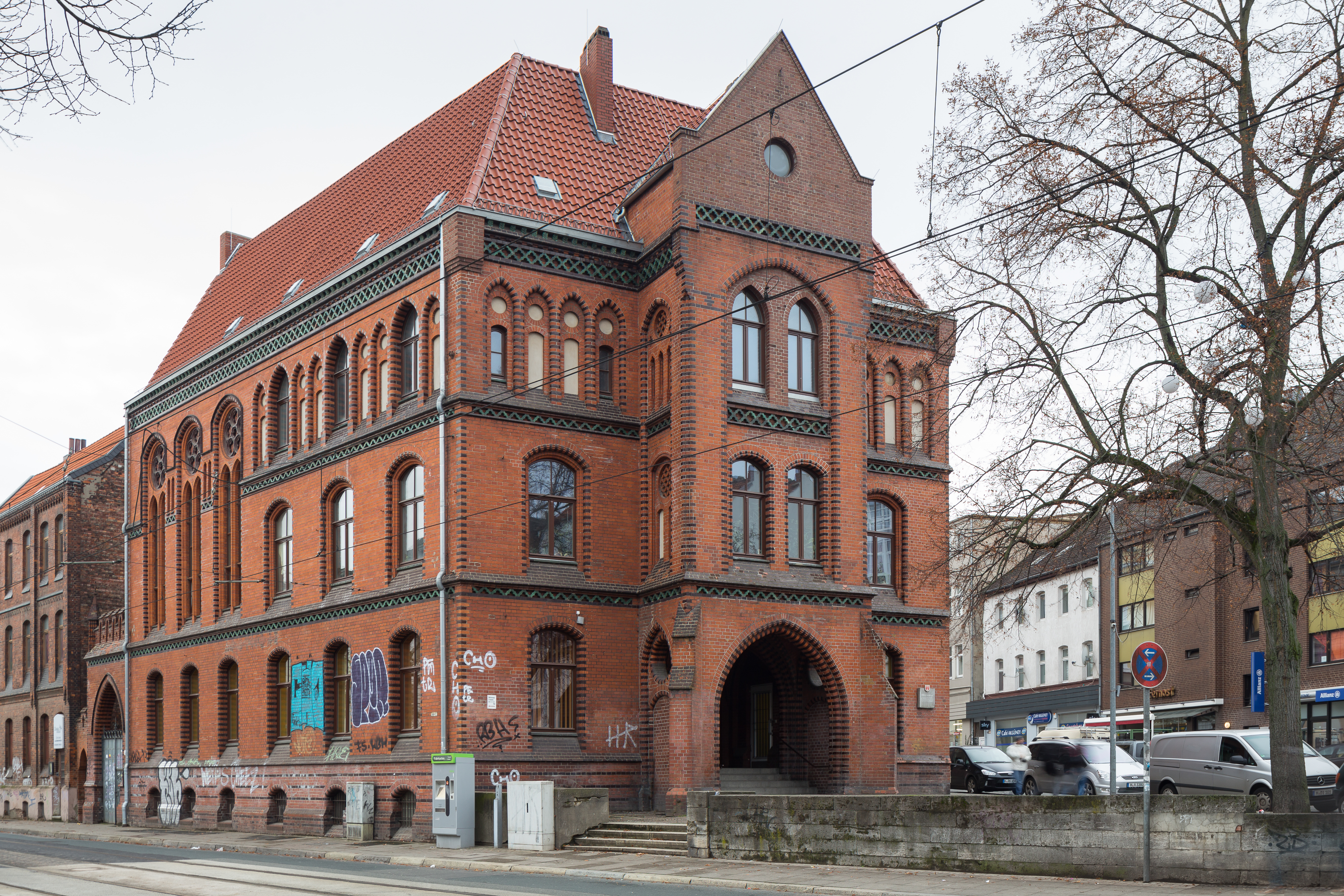 Old town hall of the former city of Linden, nowadays a district of Hanover, Germany. The building is located at the bifurcation of Deisterstrasse and Ricklinger Strasse (pictured).